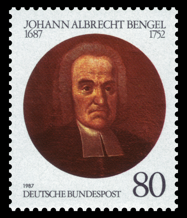 300th day of birth of Johann Albrecht Bengel (1687—1752)